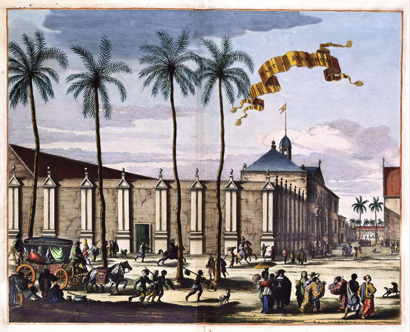 City hall of Batavia in 1682, later renovated in the 18th century to current form